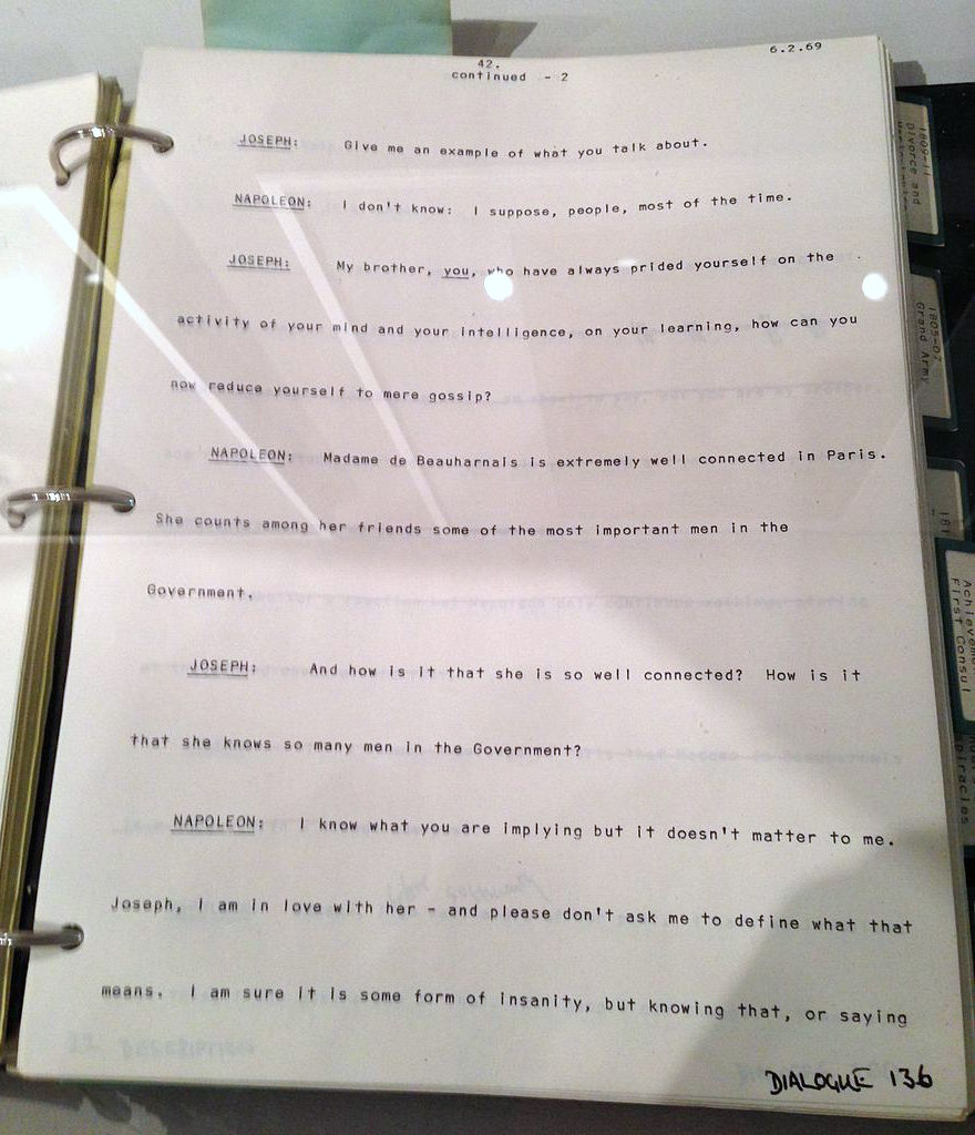 Stanley Kubrick exhibit at Los Angeles County Museum of Art.